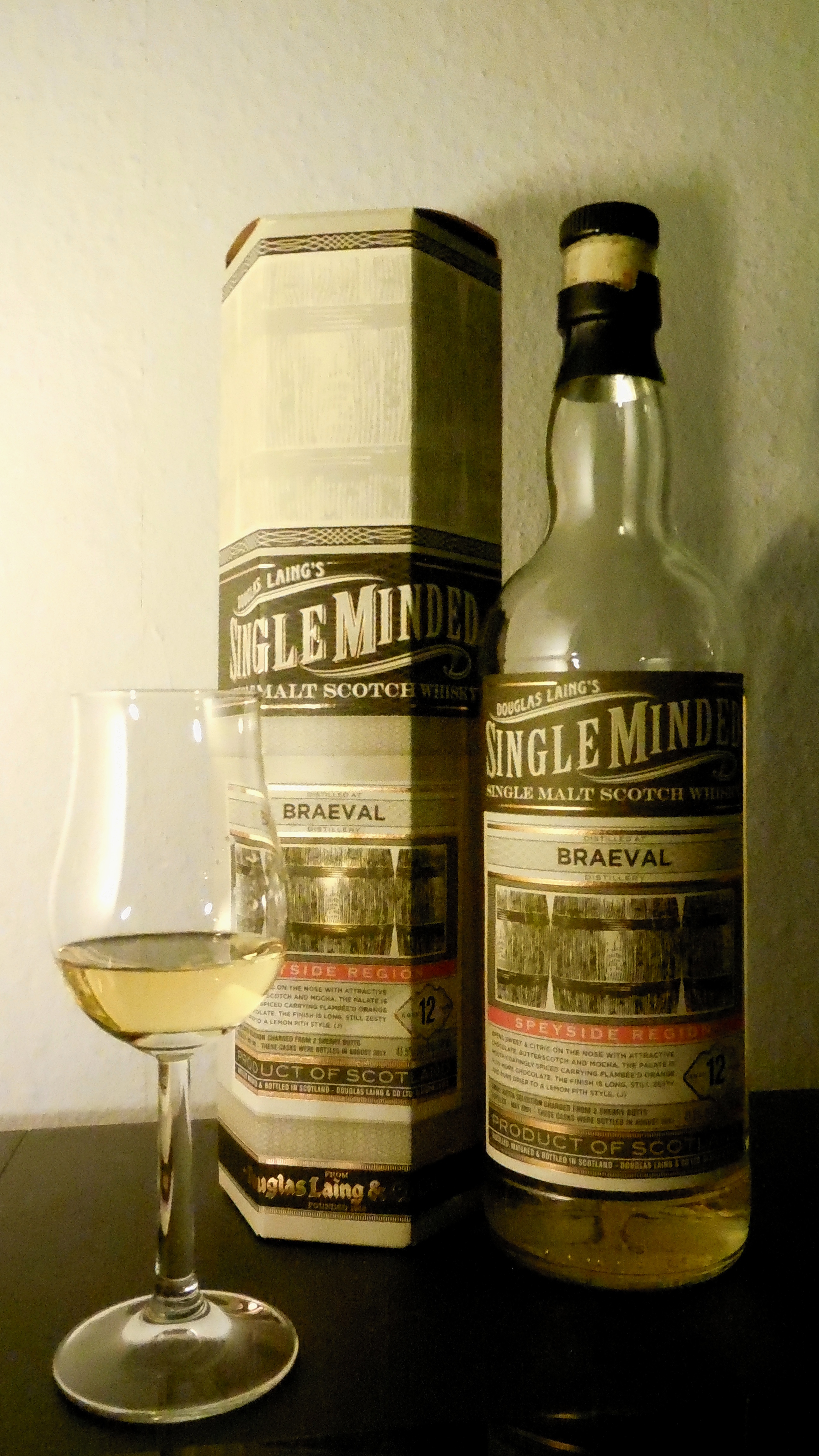 Single Malt Whisky of the Braeval distillery released by the independent bottler Douglas Laing & Co.